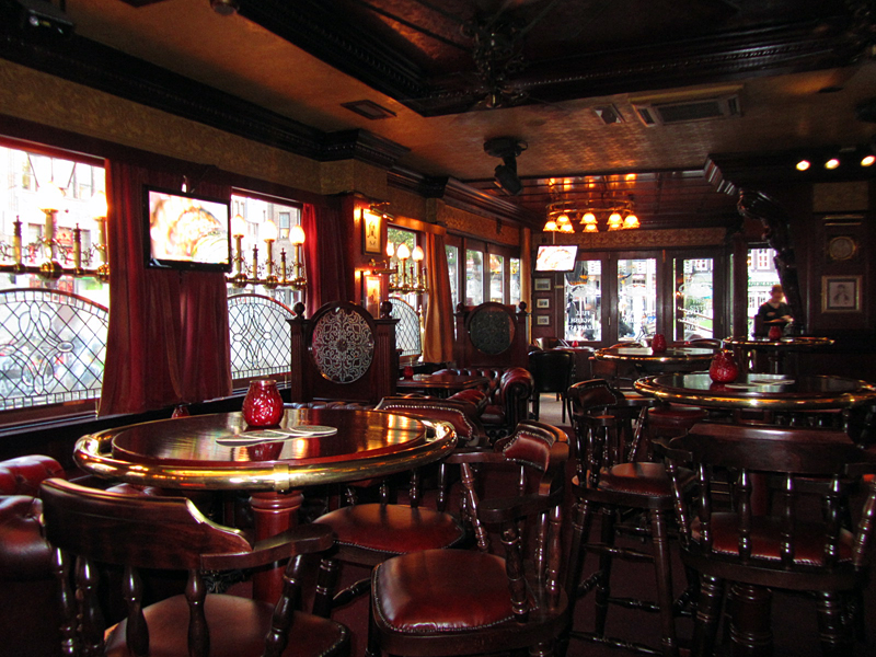 Interior of the Three Sisters bar at Rembrandtplein in Amsterdam (2012)